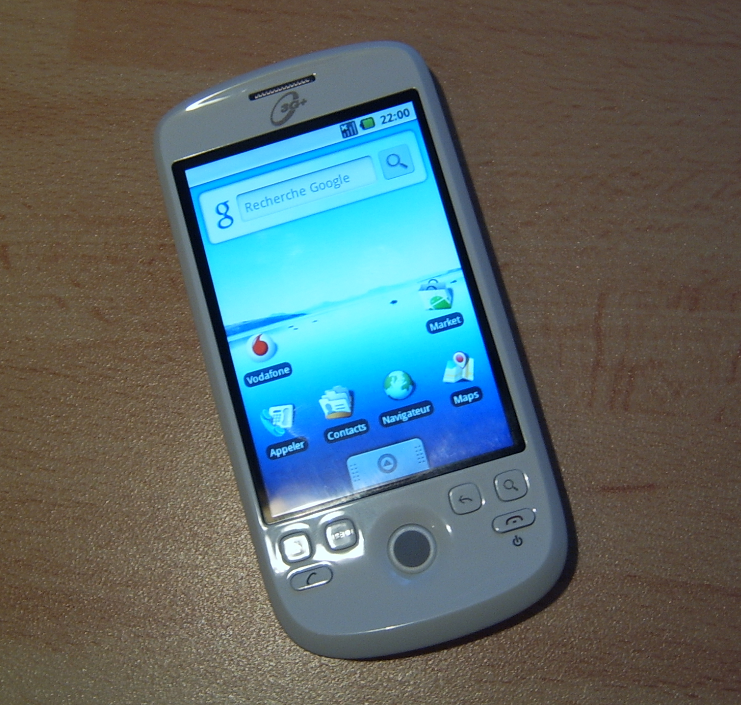 HTC Magic